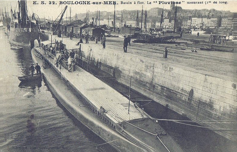 French submarine "Le Pluviose" in Boulogne-sur-Mer harbor